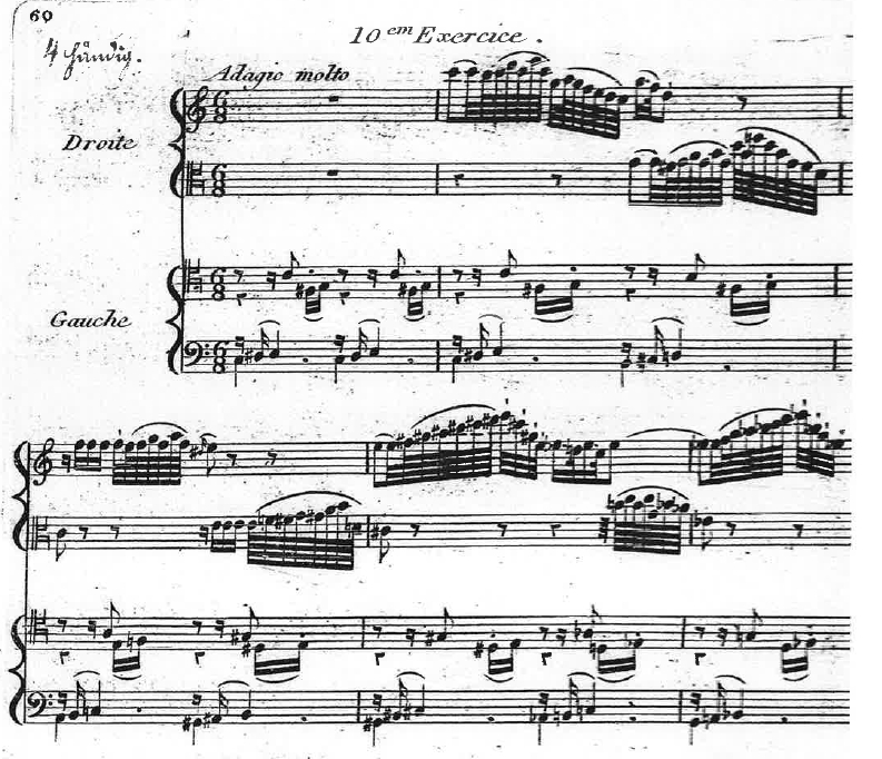 Opening bars of the final exercise of Anton Reicha's Etudes ou Exercices pour le Piano-Forté, Op. 30 (1800s)